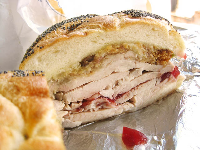 A Thanksgiving sandwich, made with turkey, dressing, and cranberry sauce.